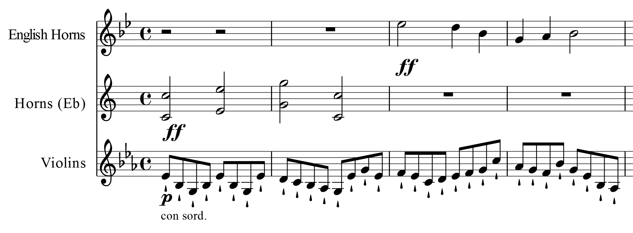 Joseph Haydn, Symphony No. 22, first movement Adagio, English Horns, Horns (Eb), Violins, bar 1-4